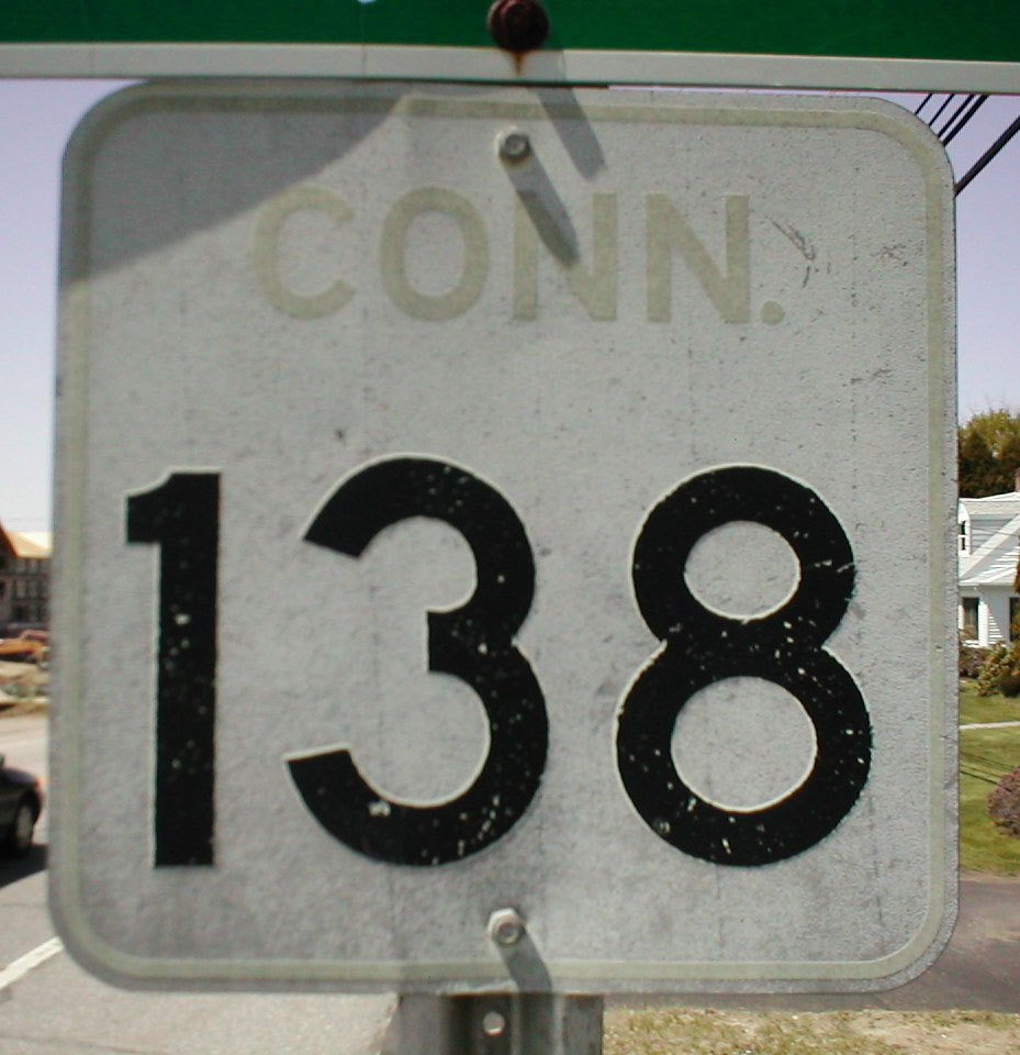 Old Route 138 sign in Griswold, Connecticut, just wets of I-395. The green sign above points straight to Jewett City. Taken April 27, 2002 by SPUI.